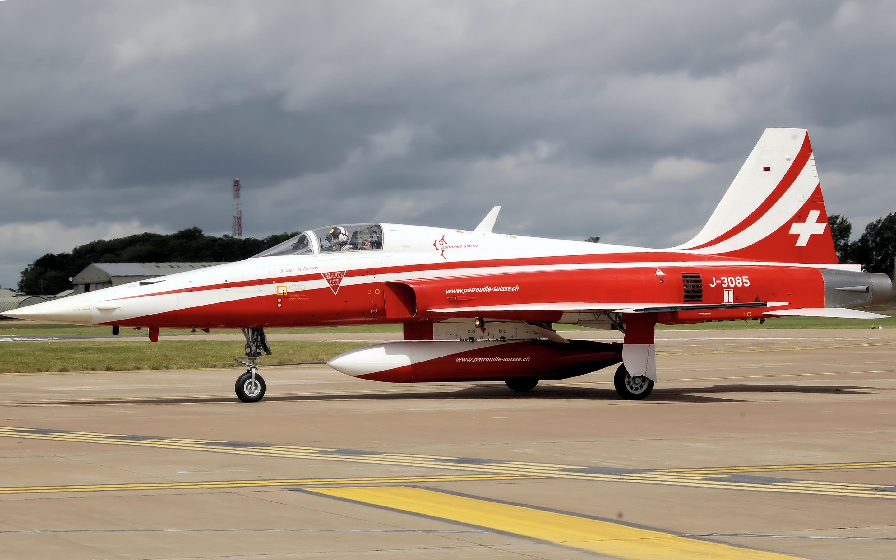 Swiss Air Force Northrop F-5E Tiger II (J3085) of the Patrouille Suisse aerobatics team taxis after landing at the Royal International Air Tattoo, Fairford, Gloucestershire, England. Taken at Fairford on the Thursday before the weekend show days. Later, both show days (Saturday and Sunday) were cancelled due to flooded car parks.